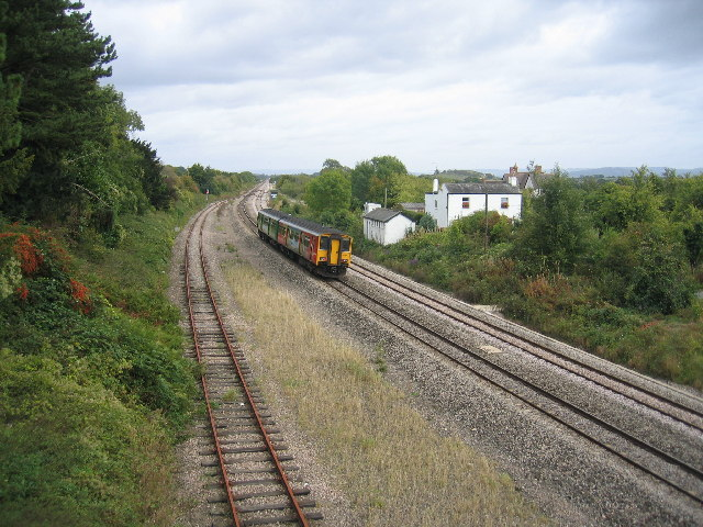 Grange Court Junction; the site of the former station at Grange Court